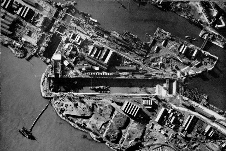 Aerial photograph of Normandie Dock taken couple of months after Operation Chariot. The wreck of HMS Campbeltown still lies inside the dock.